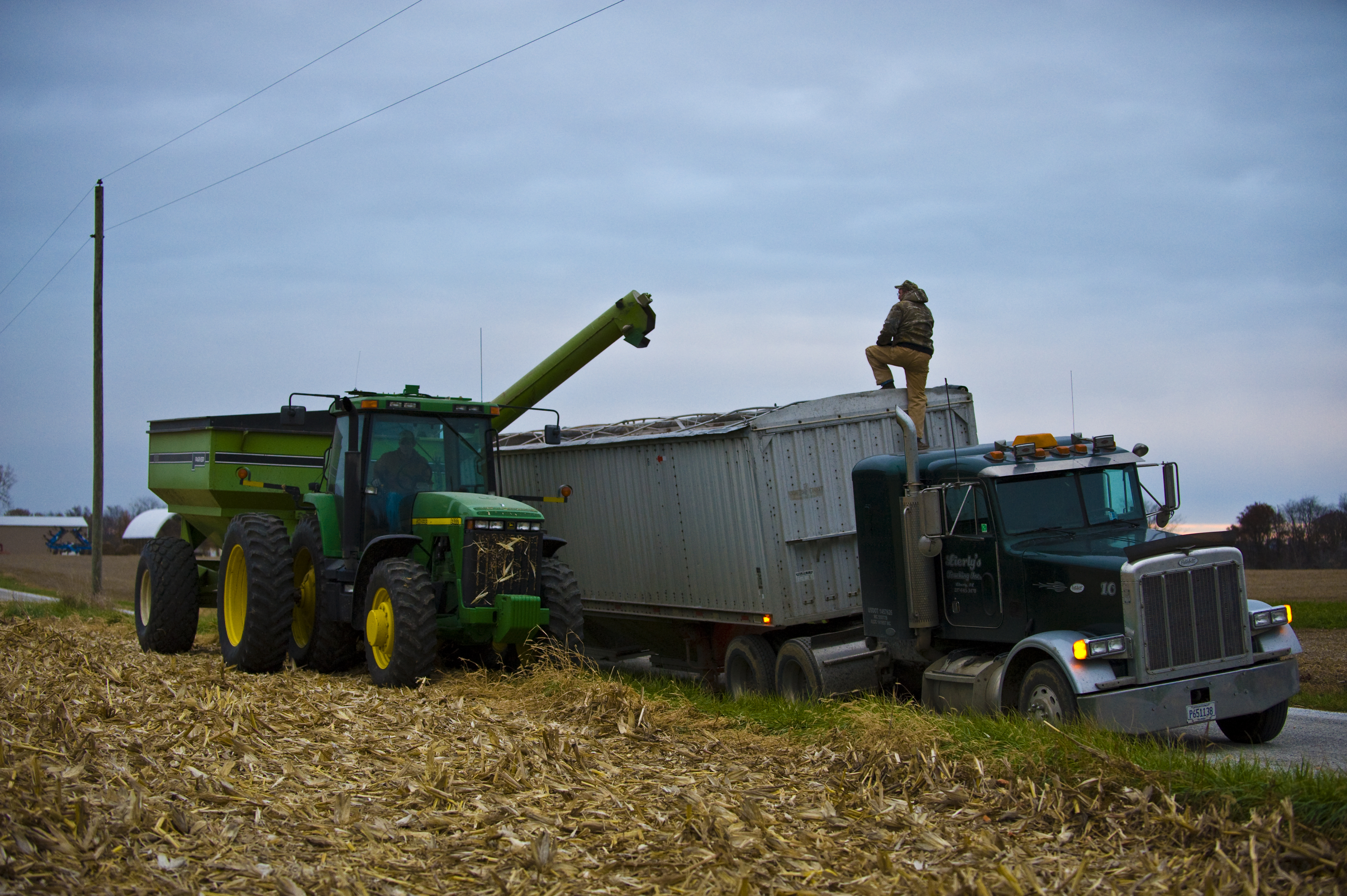 A twin-tired John Deere 8400 tractor with an auger wagon, filling crops into a truck trailer near Tennessee, Illinois, USA. – Word around the field was that these hired truckers were pretty picky about how the load was balanced, and Steve really didn't want to dump on them. Meanwhile, I'm having to watch my back to make sure Steve's brother won't pop out of a cut row and mow me down. It was a good day. A cold day.